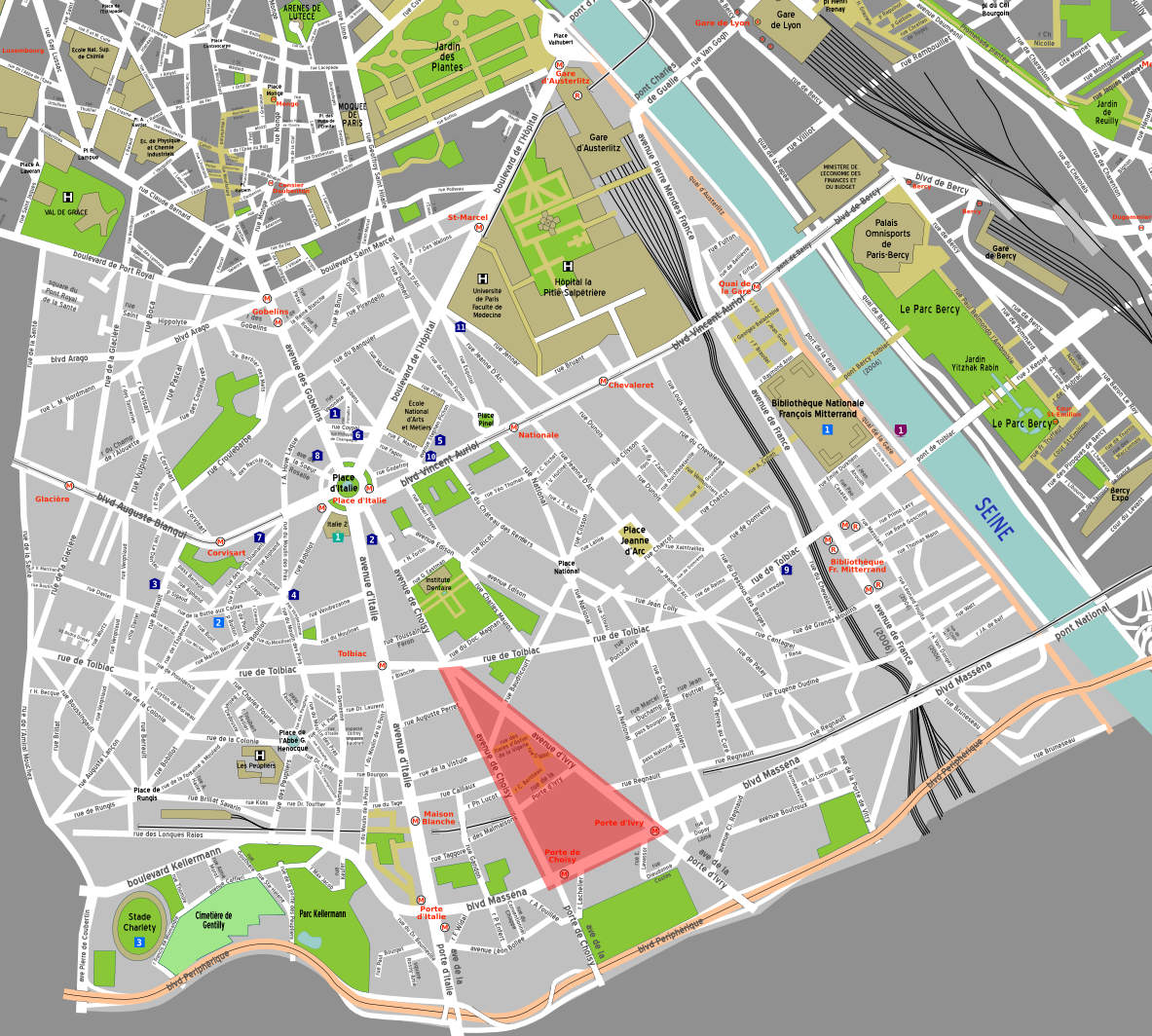 Locator map of Chinatown, Paris 13th arrondissement.